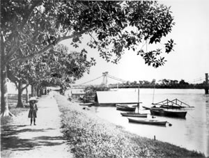 Quay Street, Rockhampton in 1912, taken from the Riverbank. The old Fitzroy River Bridge can be seen in the background.